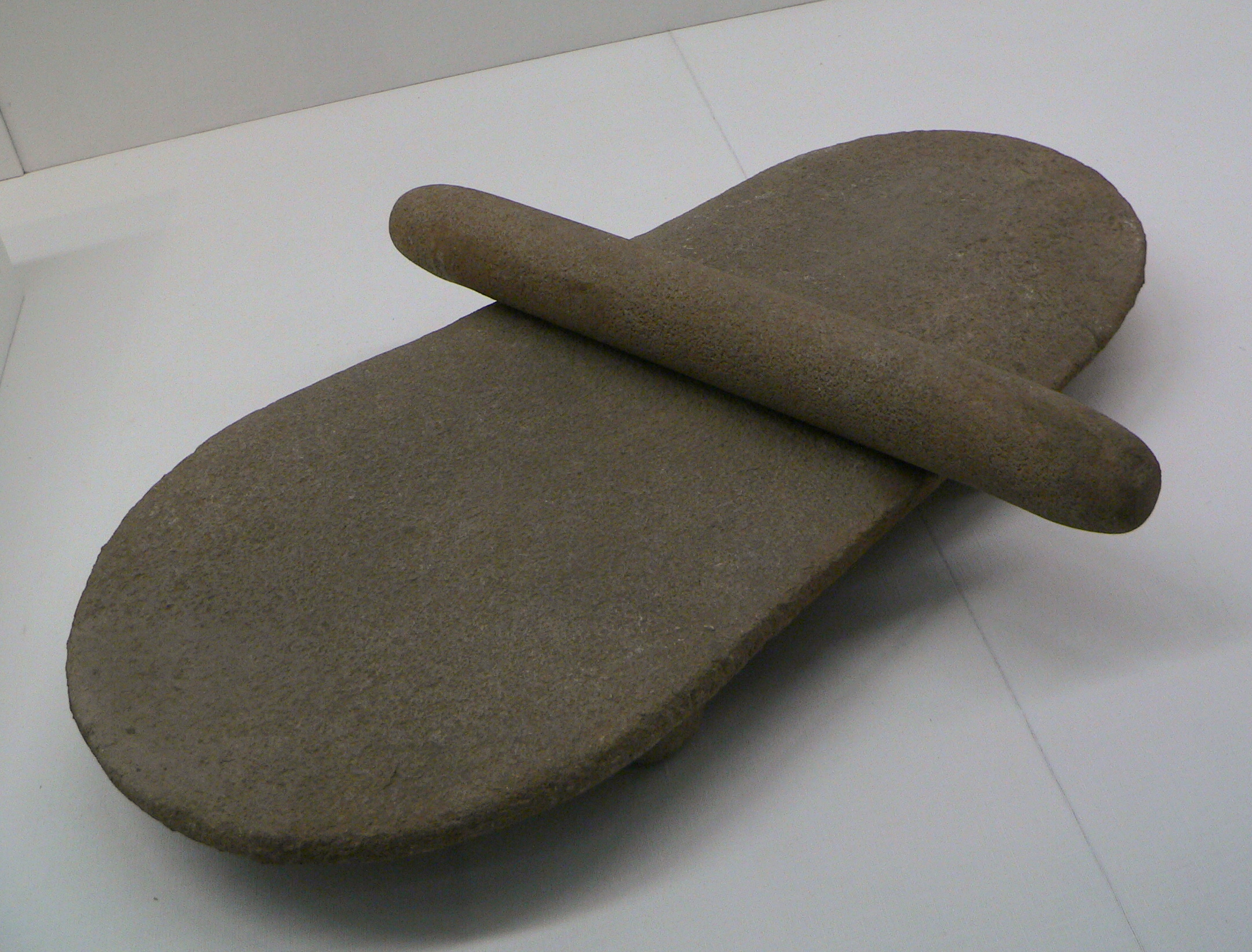 Stone roller and quern Neolithic Peiligang Culture Excavated from the ruins of Peiligang，Xinzheng